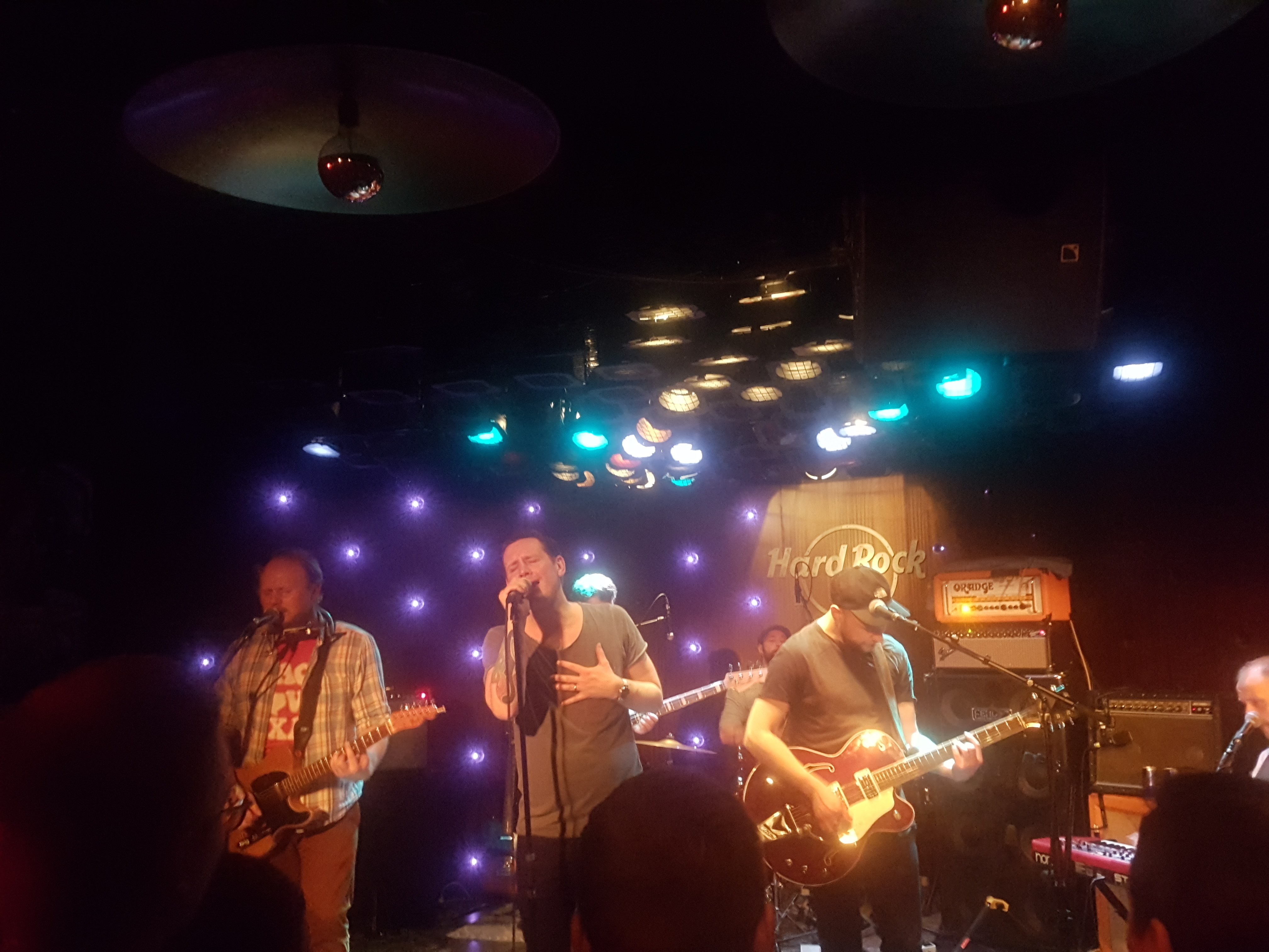 LOTH in Hard Roch Reykjavík